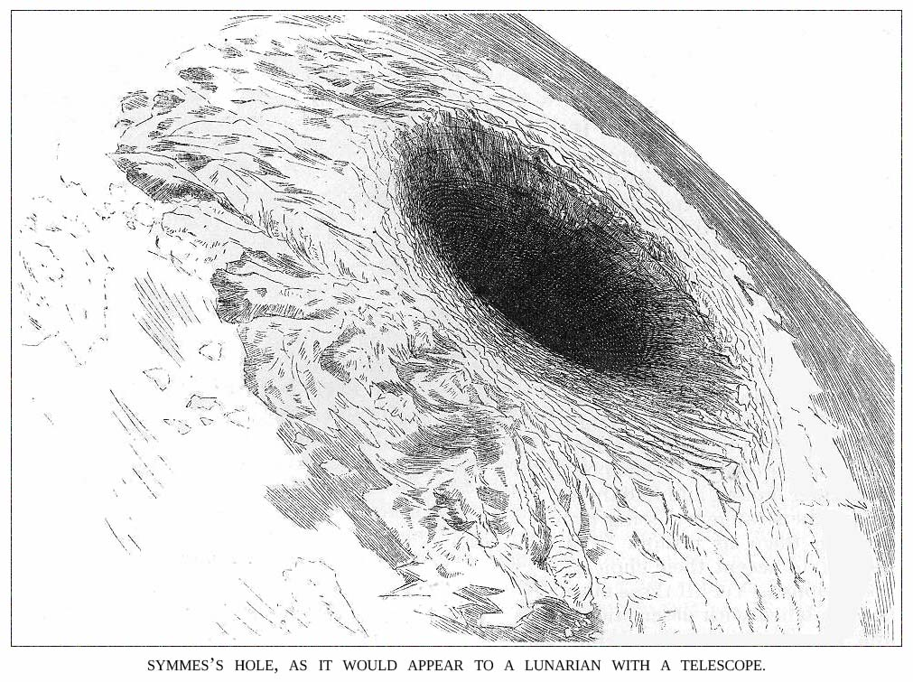 Symmes’s hole, as it would appear to a lunarian with a telescope.